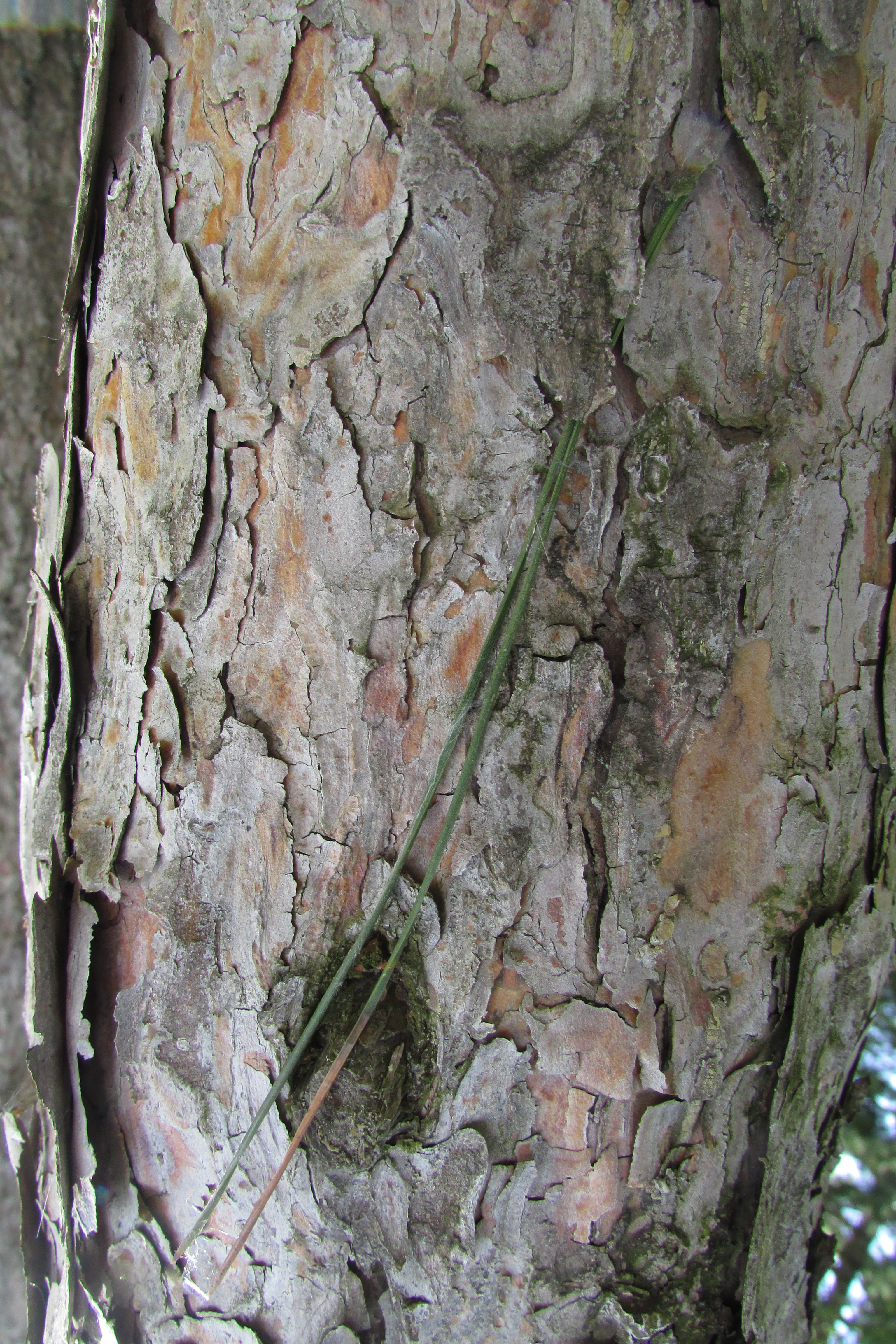 Red Pine (Pinus resinosa) bark.